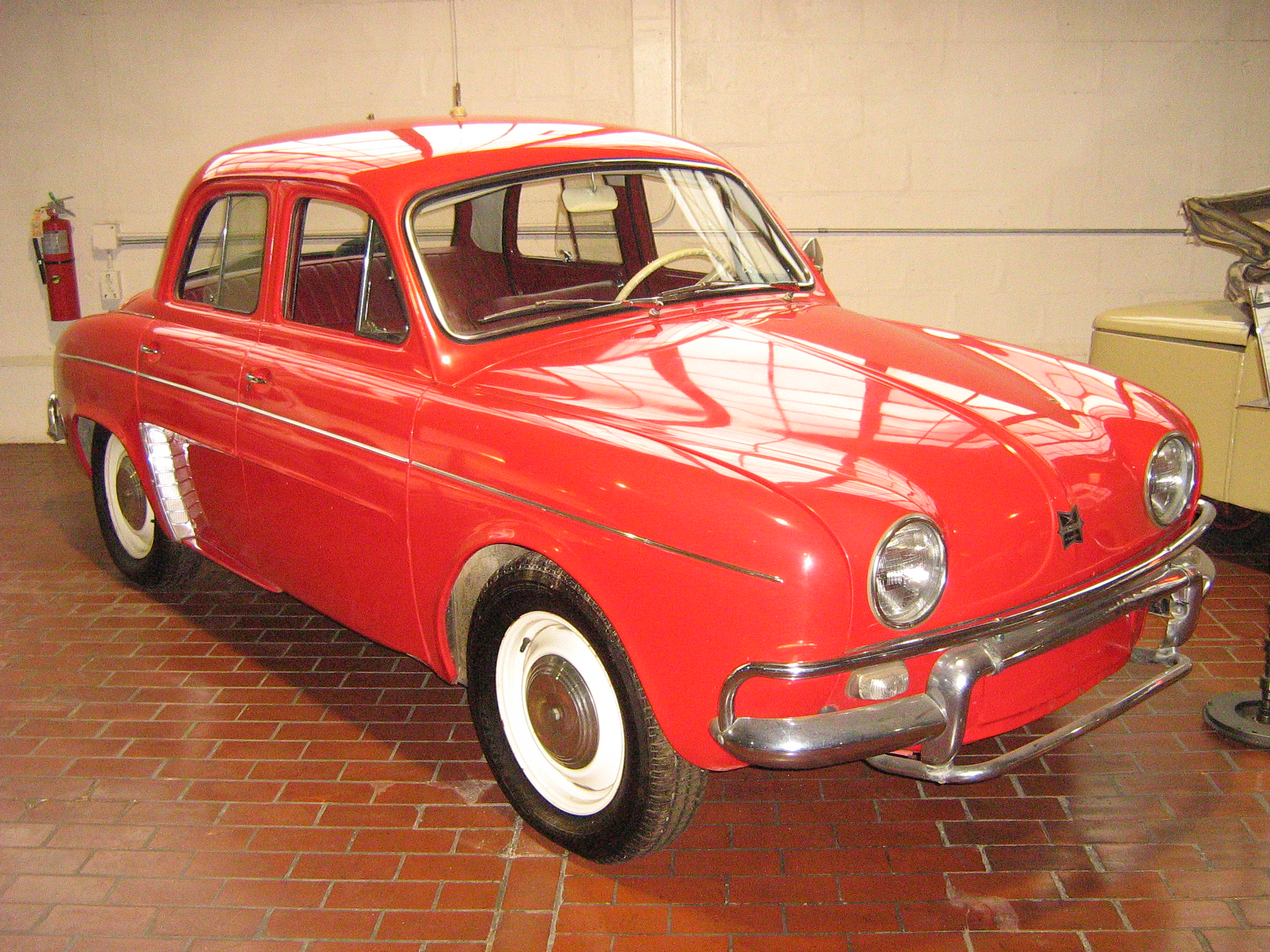 1959 Renault Dauphine based Henney Kilowatt - an electric powered car. This is an earlier 36 volt version.